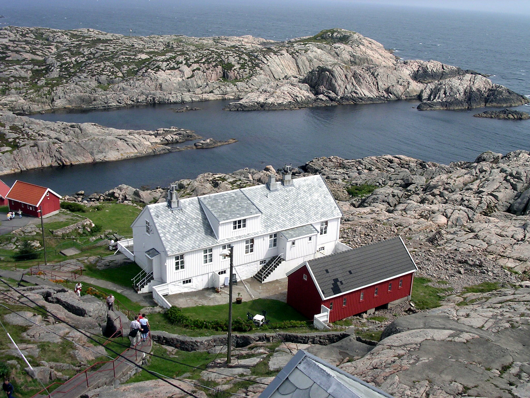 Lindesnes, Norway. Picture is taken from the lighthouse. The long white building is the lighthousekeepers house. Today it also contains a holiday appartment.